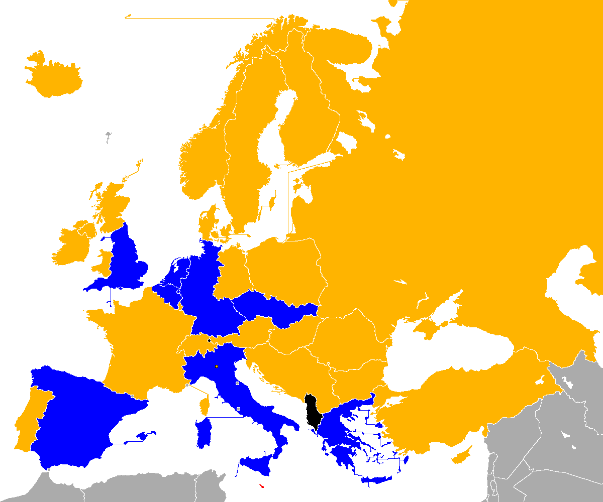 Euro 1980 qualifiers